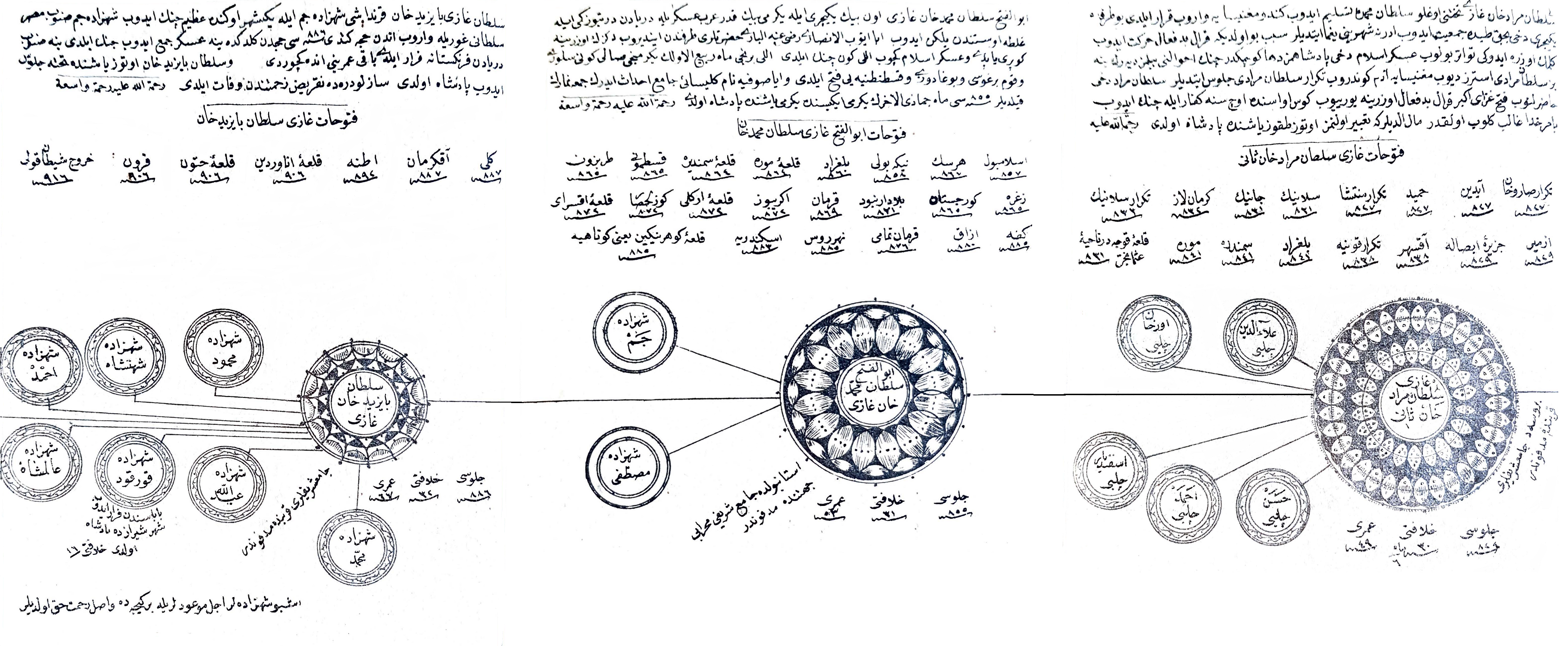 Line of Mehmed the Conqueror and his issue, in Ottoman Turkish.